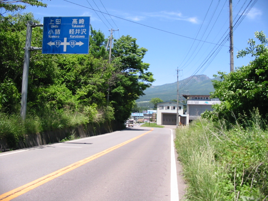 The Nagano Prefectural Road Route 9 near the Maseguchi Intersection in Miyota Town